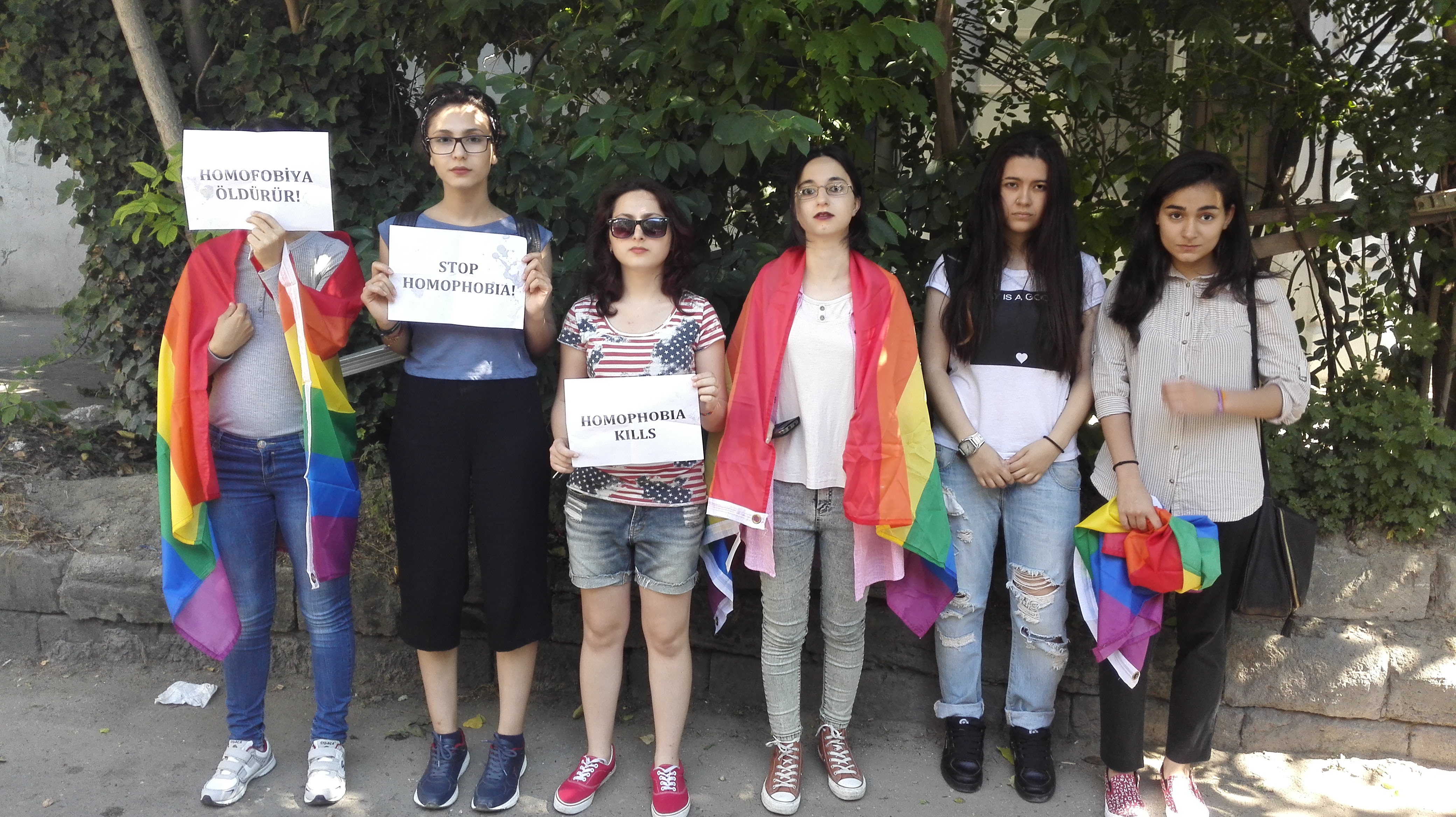 Baku vigil for Orlando